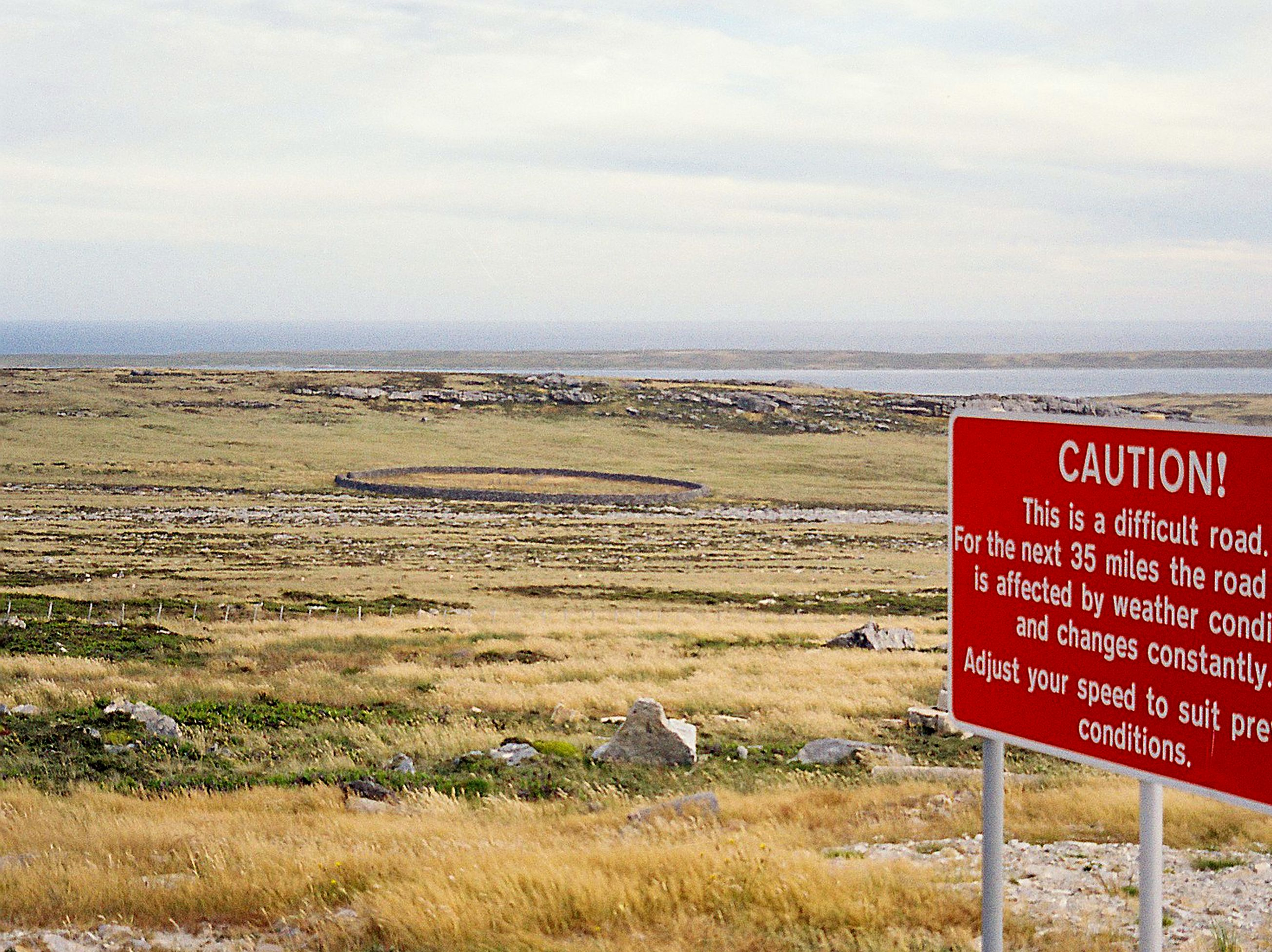 Sapper Hill Corral from Mount Pleasant Road, Falkland Islands.